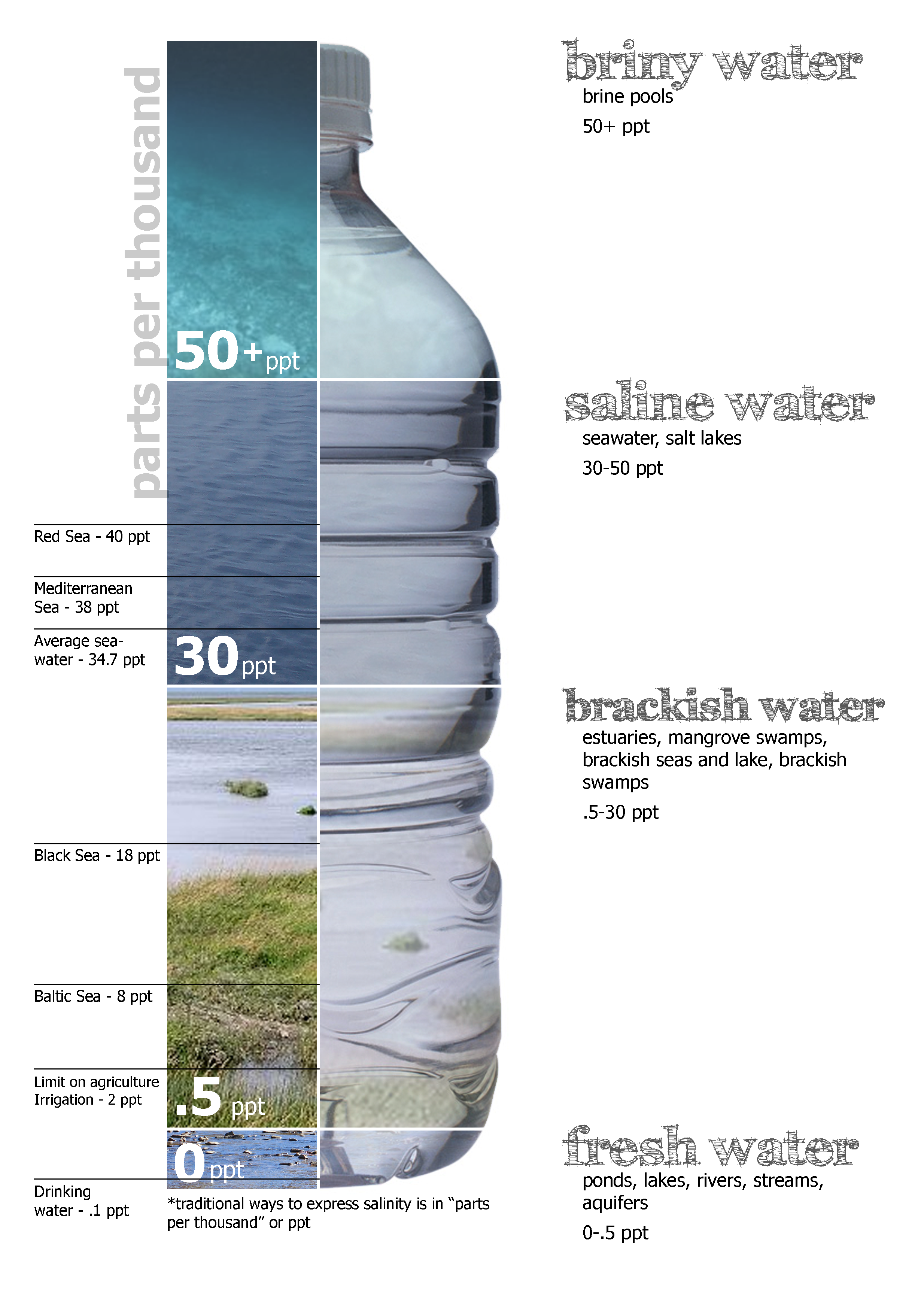 Graphic breakdown of water salinity, defining freshwater, brackish water, saltwater, and brine water.